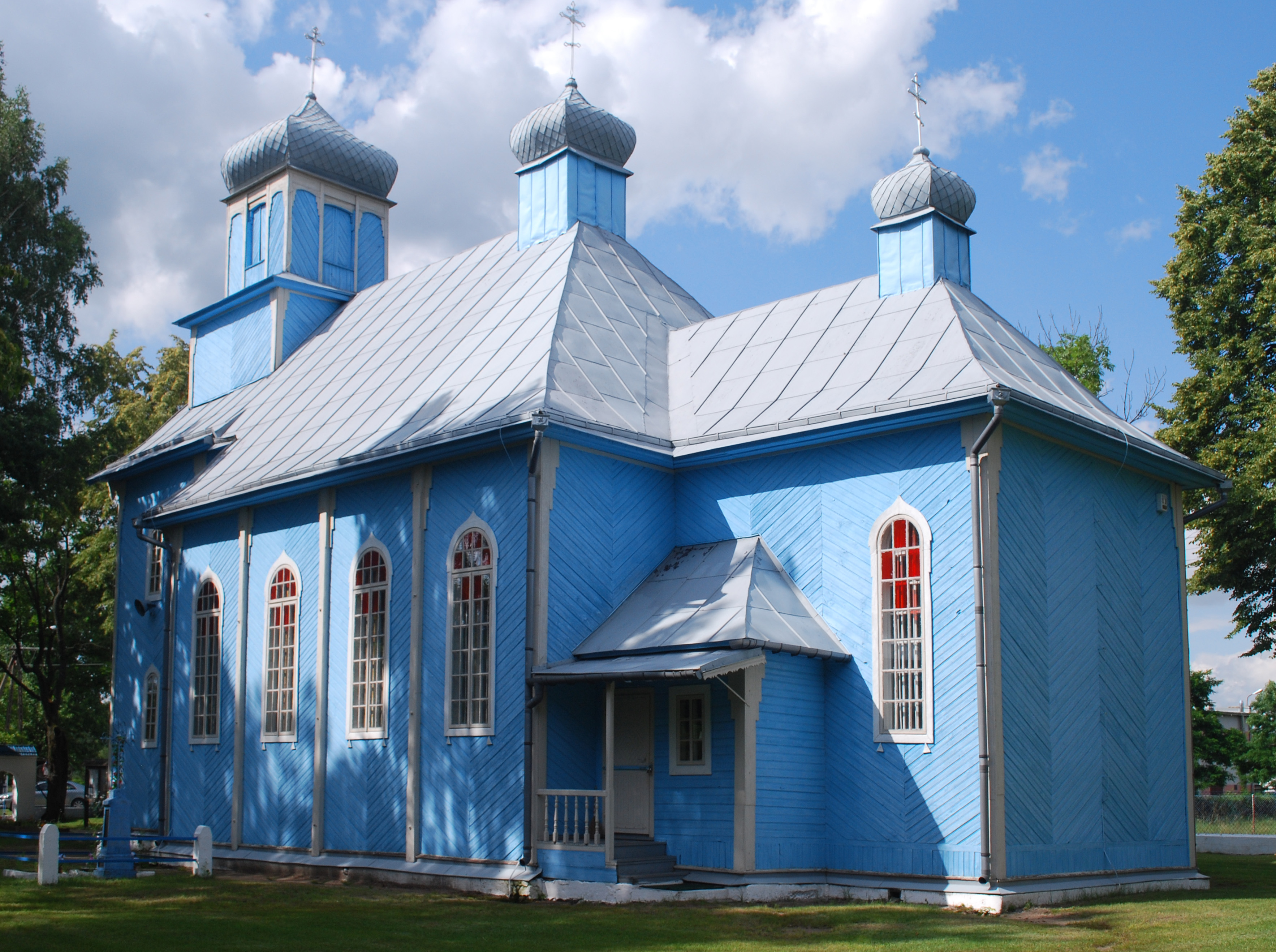 This photo from Podlaskie Voievodeship was taken during Polish Wikiexpedition 2009 set up by Wikimedia Polska Association. The making of this document was supported by Wikimedia Polska. Cerkiew w Dubiczach Cerkiewnych